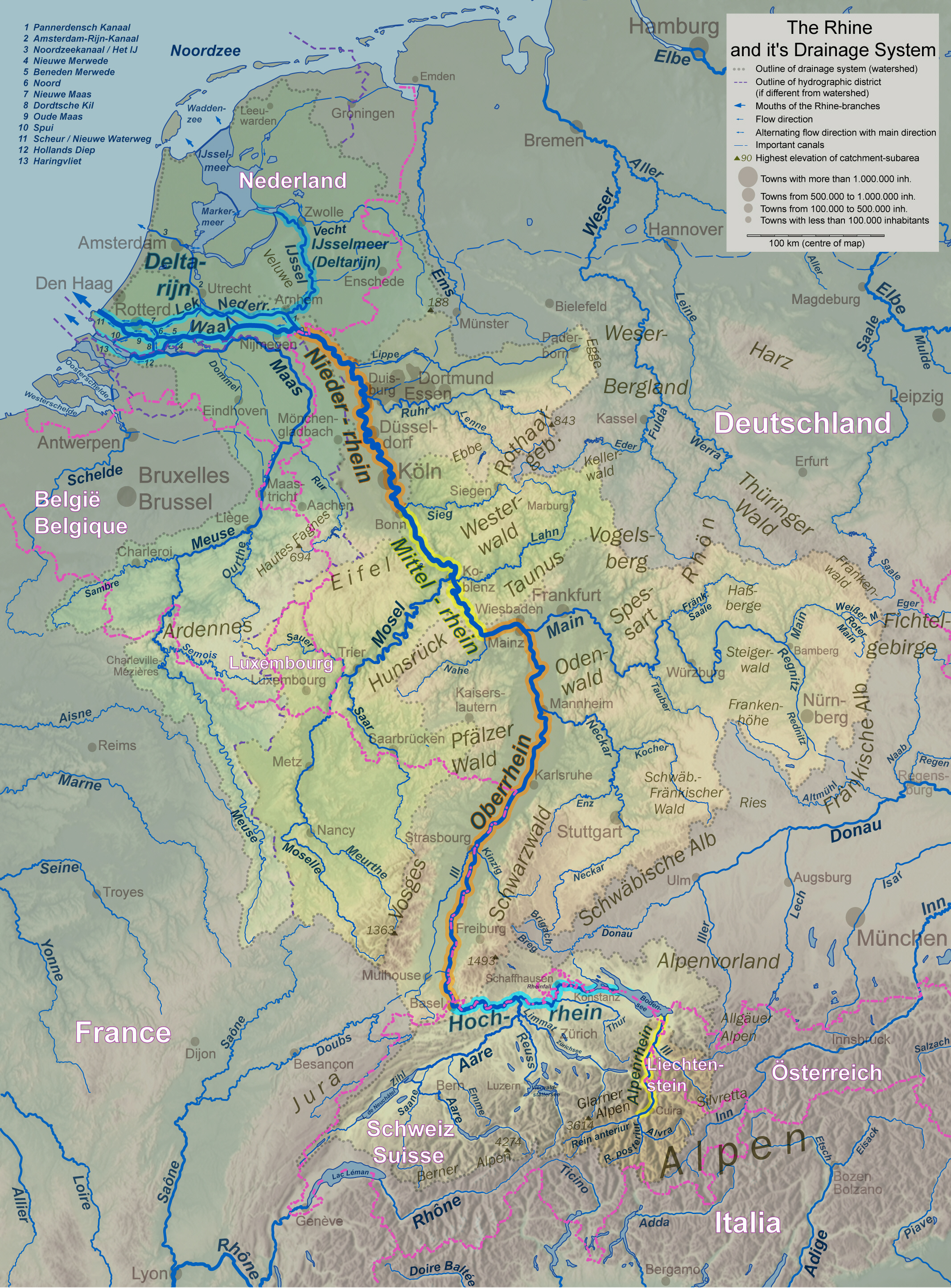 Map of the Rhine course and it's major tributaries, local names